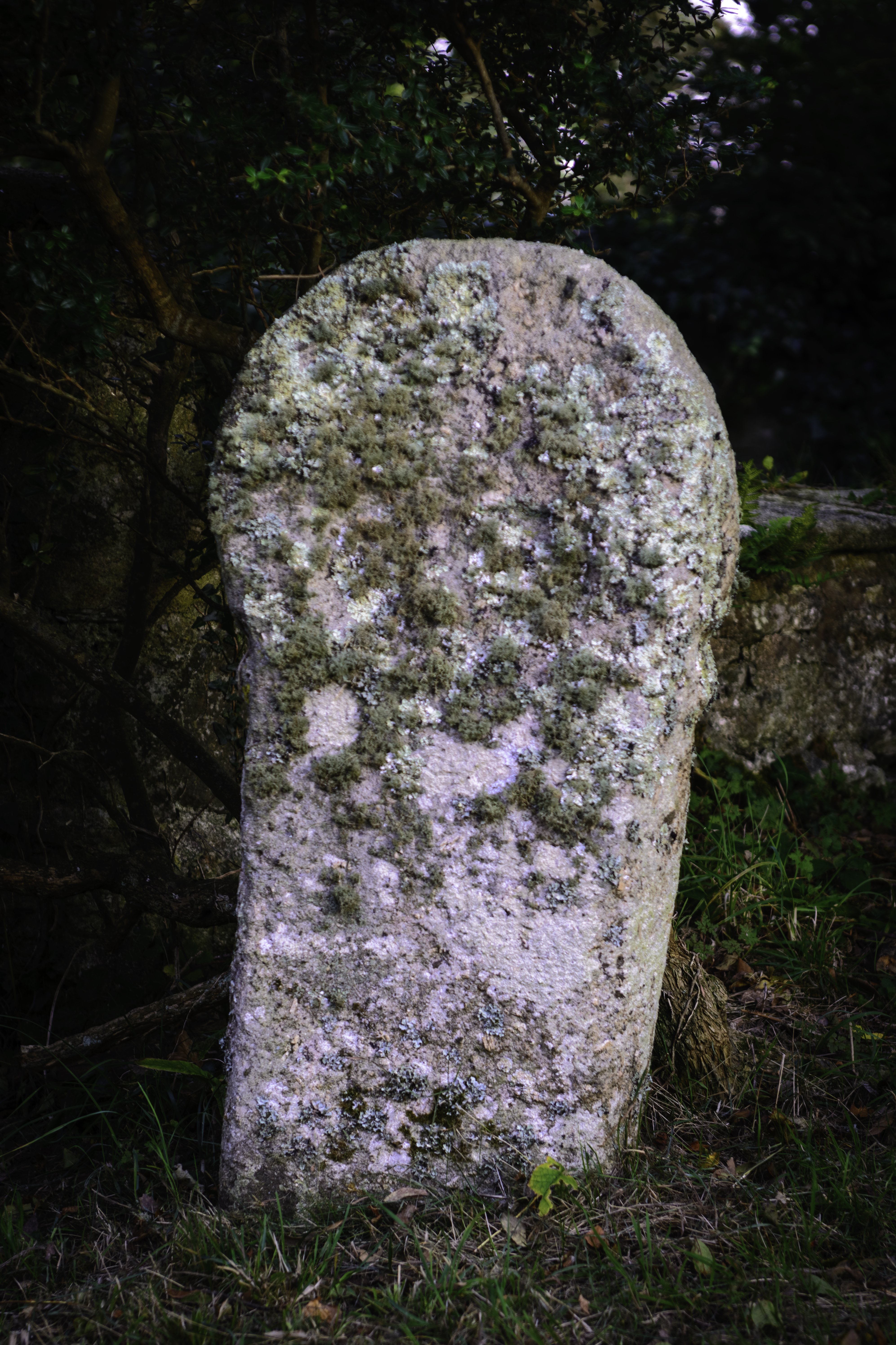 Cross In The Churchyard About 10 Metres South Of South Porch Of Church Of St Enoder Wikidata has entry Q26436932 with data related to this item.